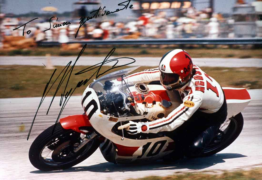 Giacomo Agostini's Autograph. Surrey UK